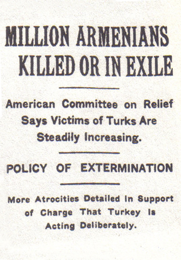 This is an article published first in the newspaper, New York Times on December 15, 1915. It is on the Armenian Genocide.